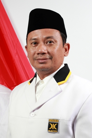 Memet Sosiawan